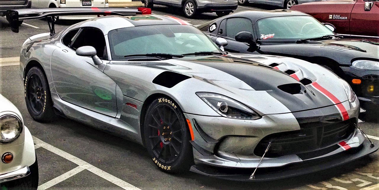 Dodge VIPER SRT ACR